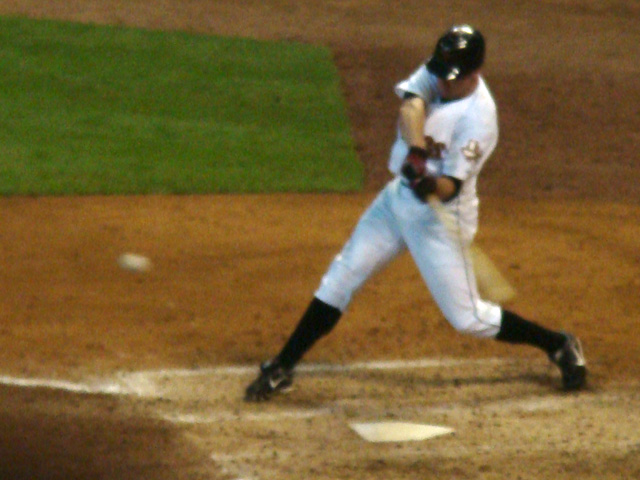 Darin Erstad of the 2008 Houston Astros. 20:56, 17 June 2008 . . Mlstros . . 640×480 (134 KB)